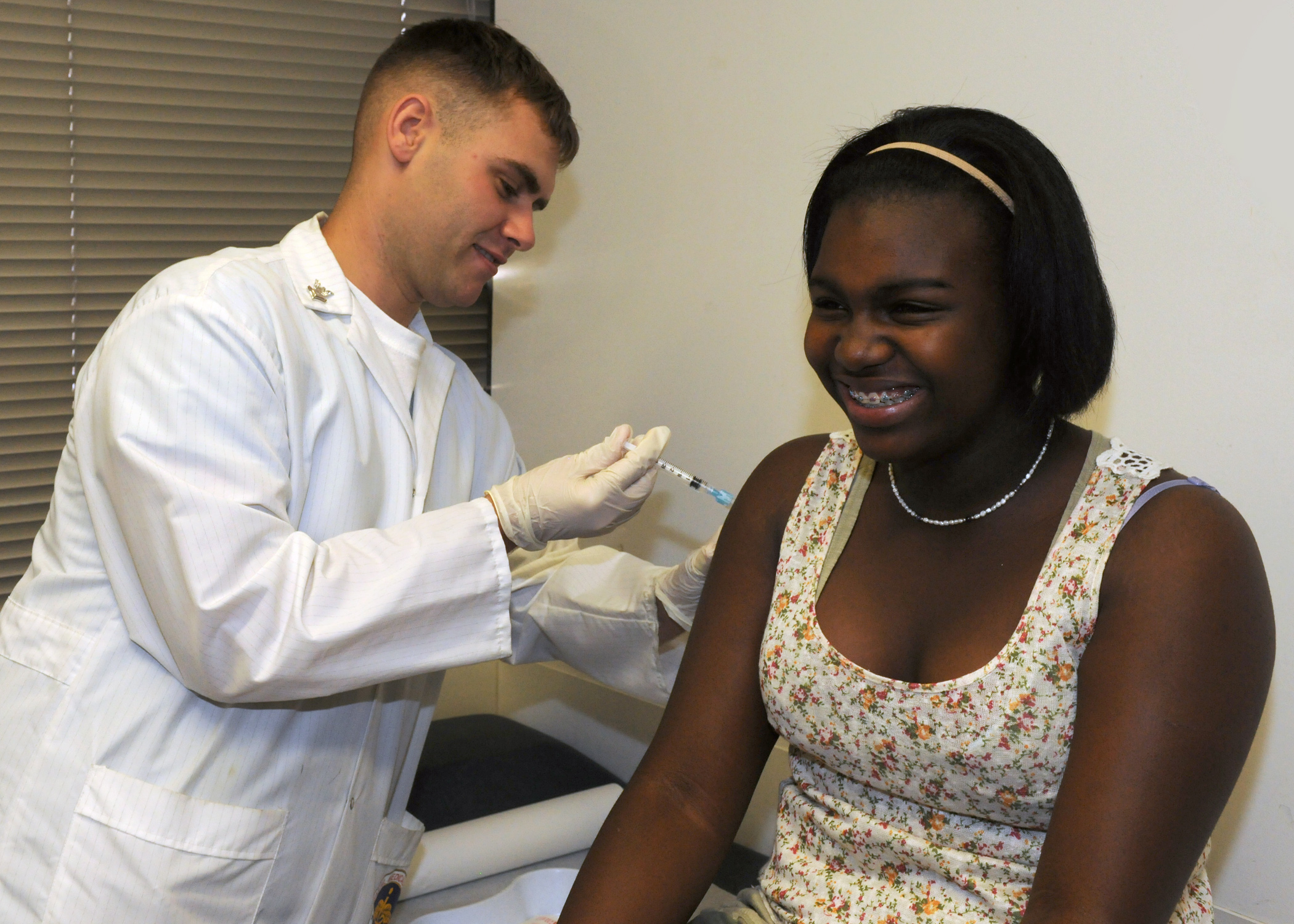 SAN DIEGO (Aug. 27, 2011) Hospital Corpsman 2nd Class Chris Dunbar, assigned to Naval Medical Center San Diego, gives a patient a tetanus, diphtheria and pertussis vaccine booster. A new California school immunization law requires all students entering 7th through 12th grades in the 2011-2012 school year to be immunized. (U.S. Navy photo by Mass Communication Specialist 2nd Class Chad A. Bascom/Released)